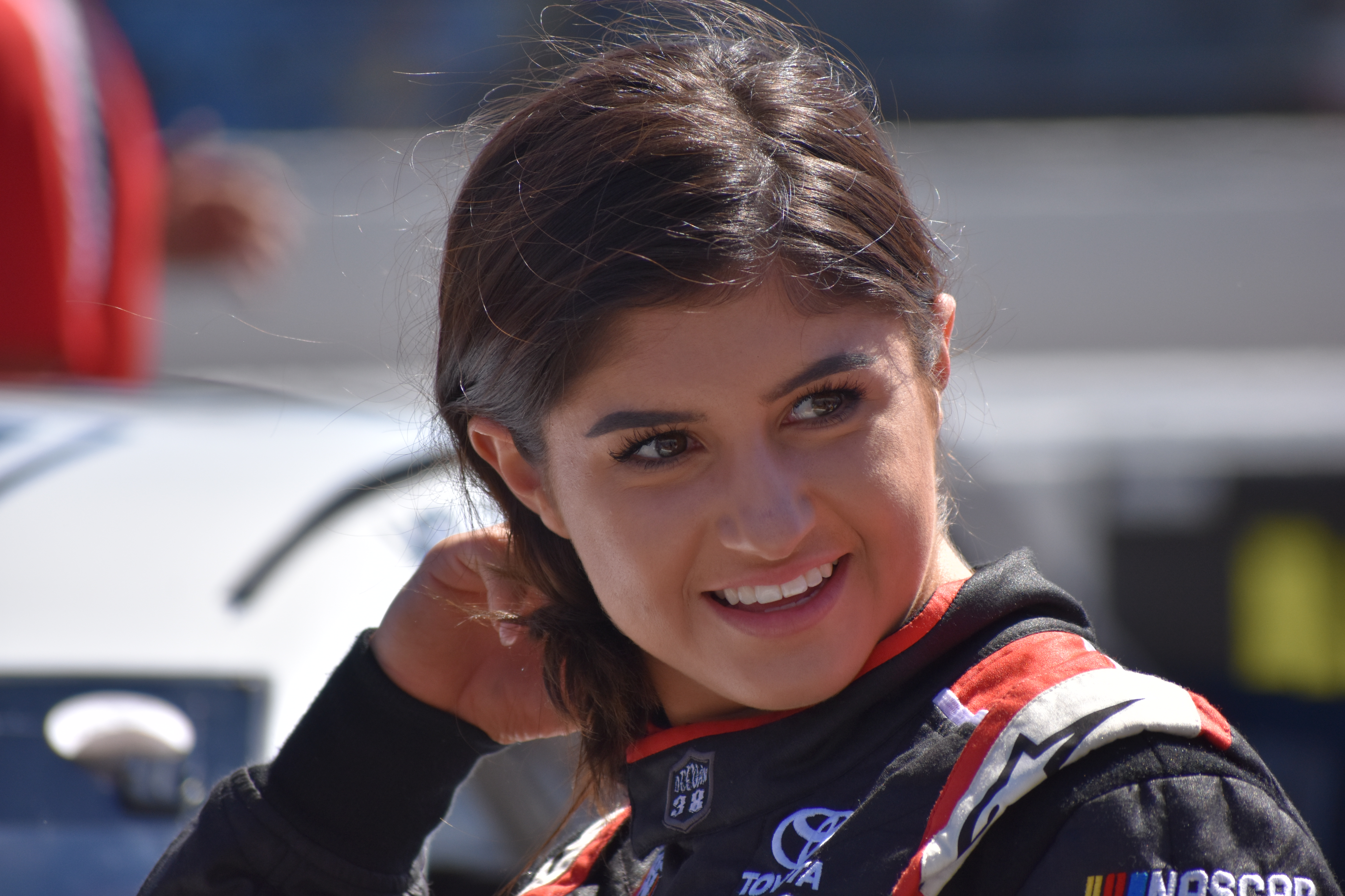 Hailie Deegan after qualifying at Sonoma Raceway on June 23, 2018